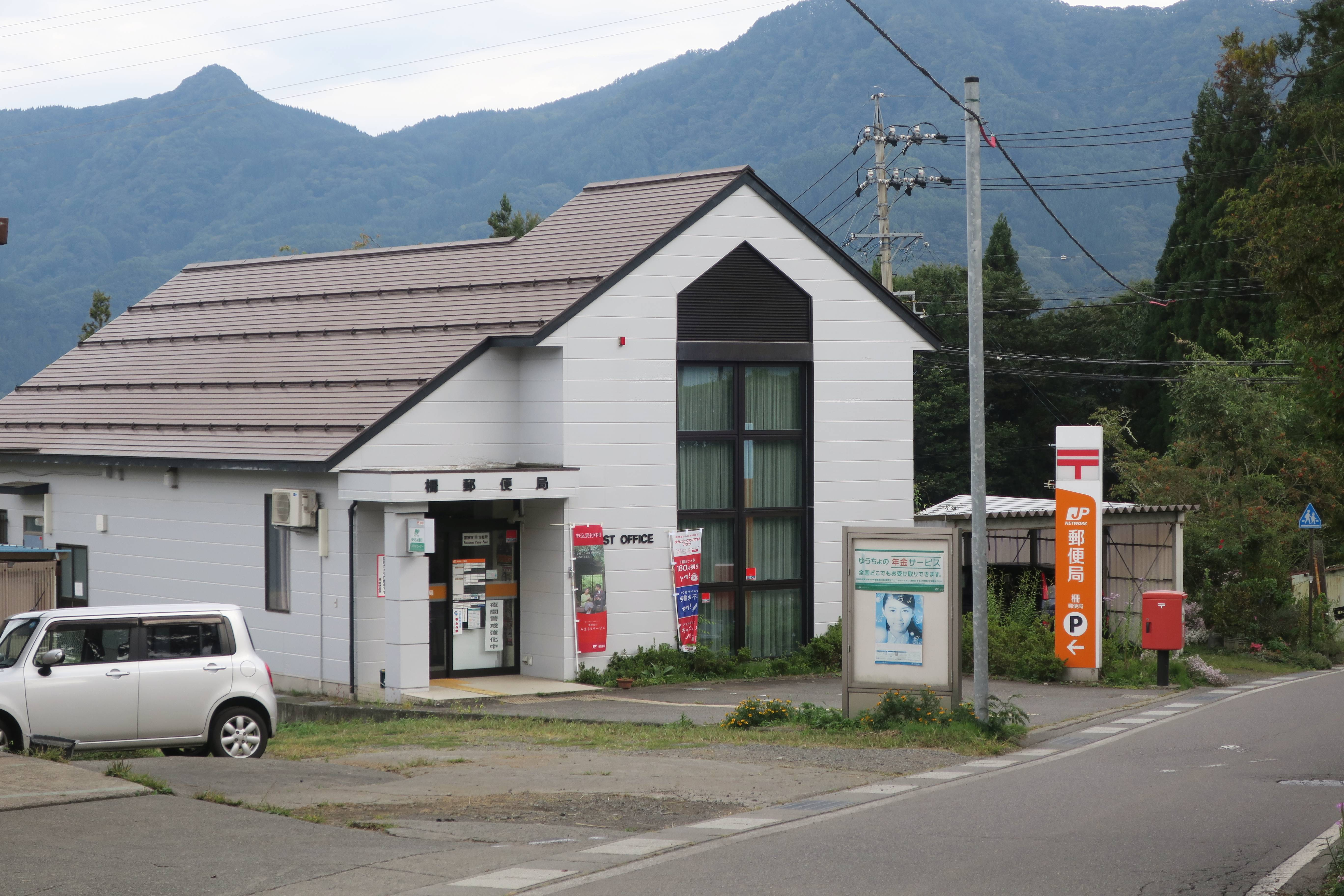 Shigarami Post Office (Nagano, Nagano).